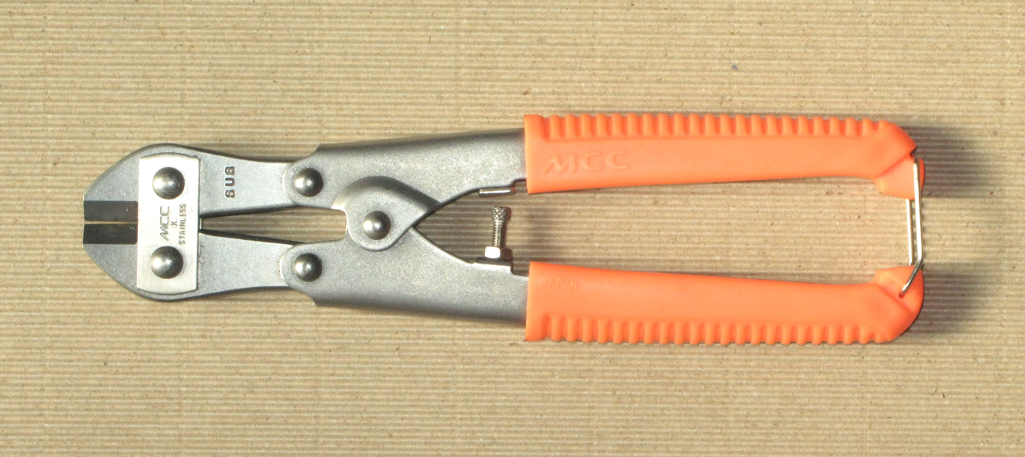 Product made in stainless steel. MCC brand made in japan.